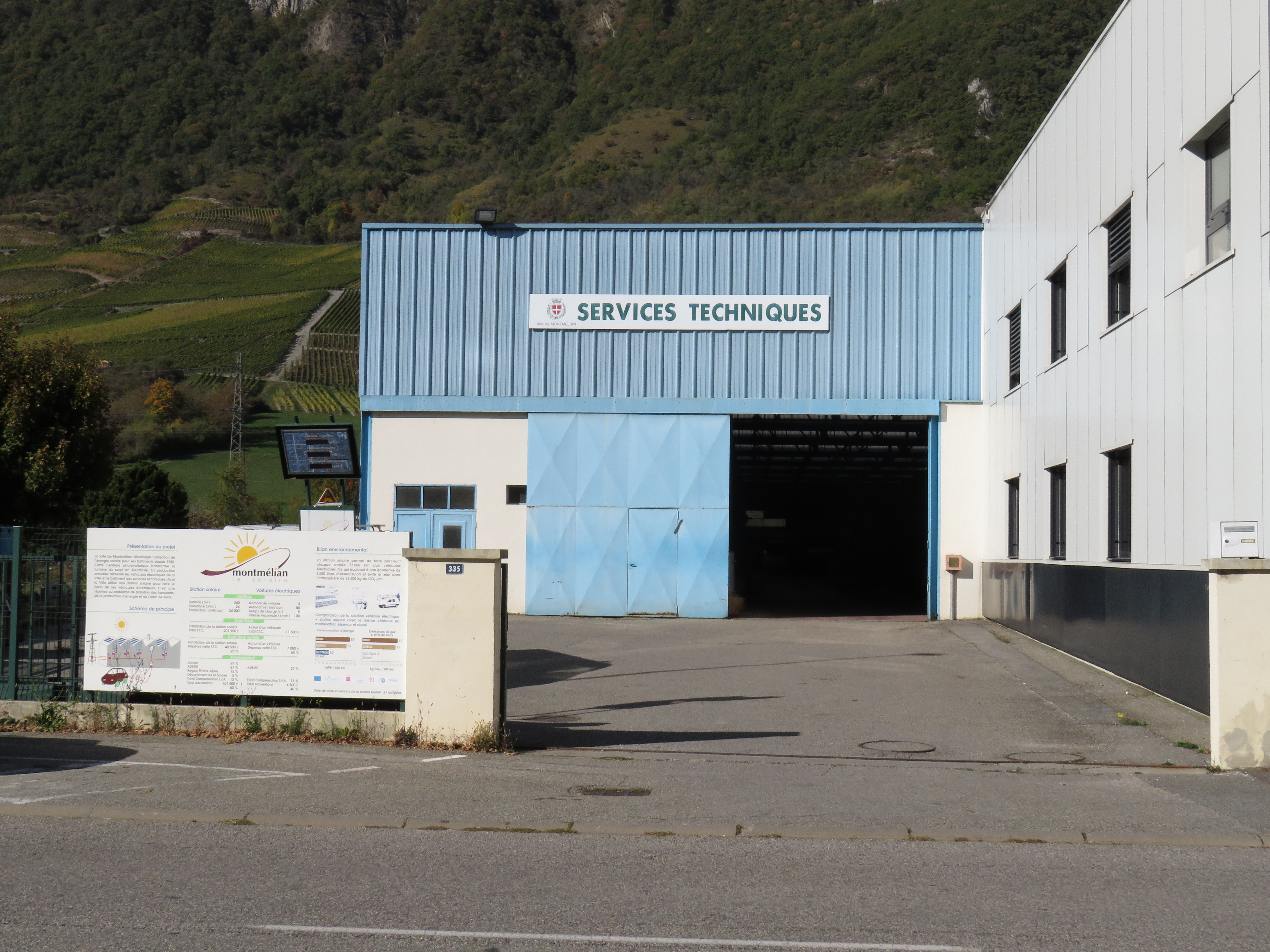 The technical center in the Avenue de la Gare (Montmélian, France) on October 11, 2017.